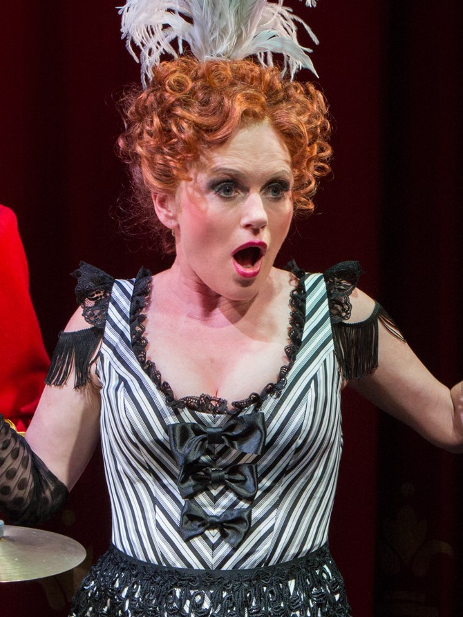 Trine Gadeberg in the Copenhagen theater Folketeatret's production of the play "Frøken Nitouche" (Mam'zelle Nitouche) by Henri Meilhac and Albert Millaud.